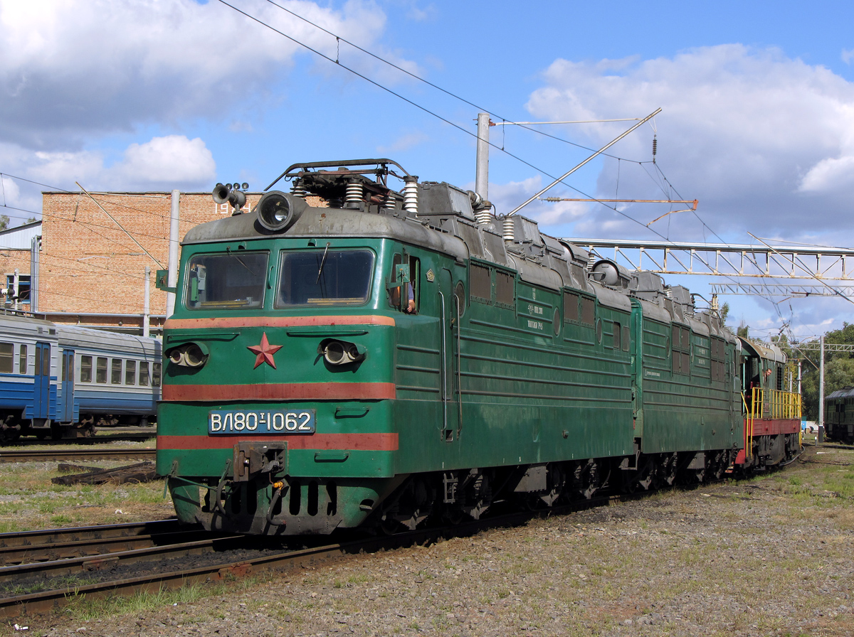 Electric locomotive VL80T-1062, Poltava depot, Ukraine, 2011